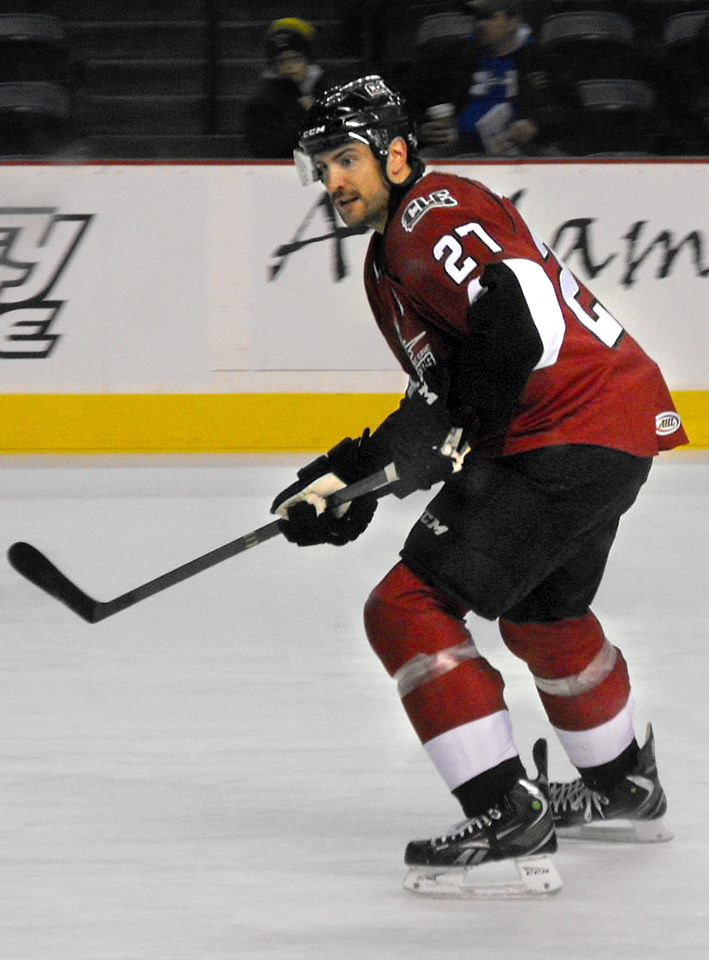 Taken 11/30/2013 @ Copps Coliseum, Hamilton, ON